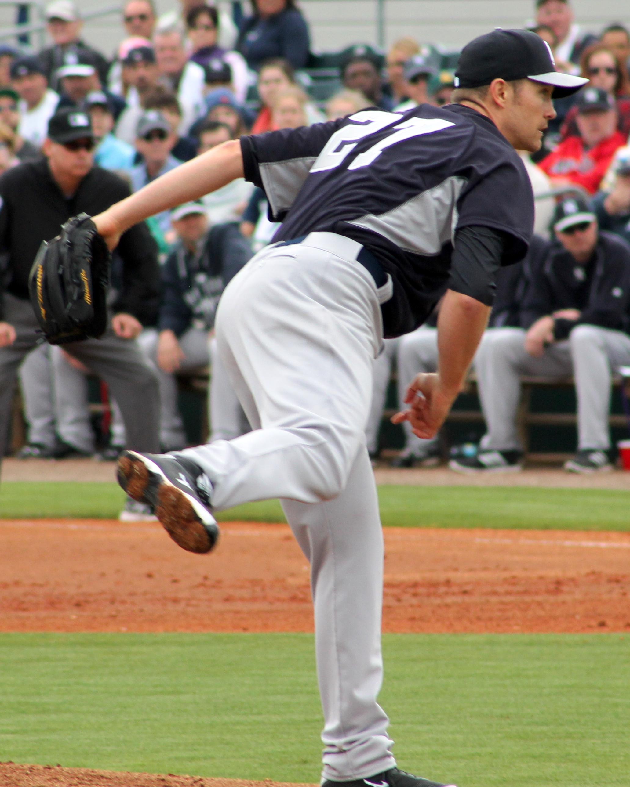 Professional baseball player Scott Baker at spring training with the New York Yankees in 2015.